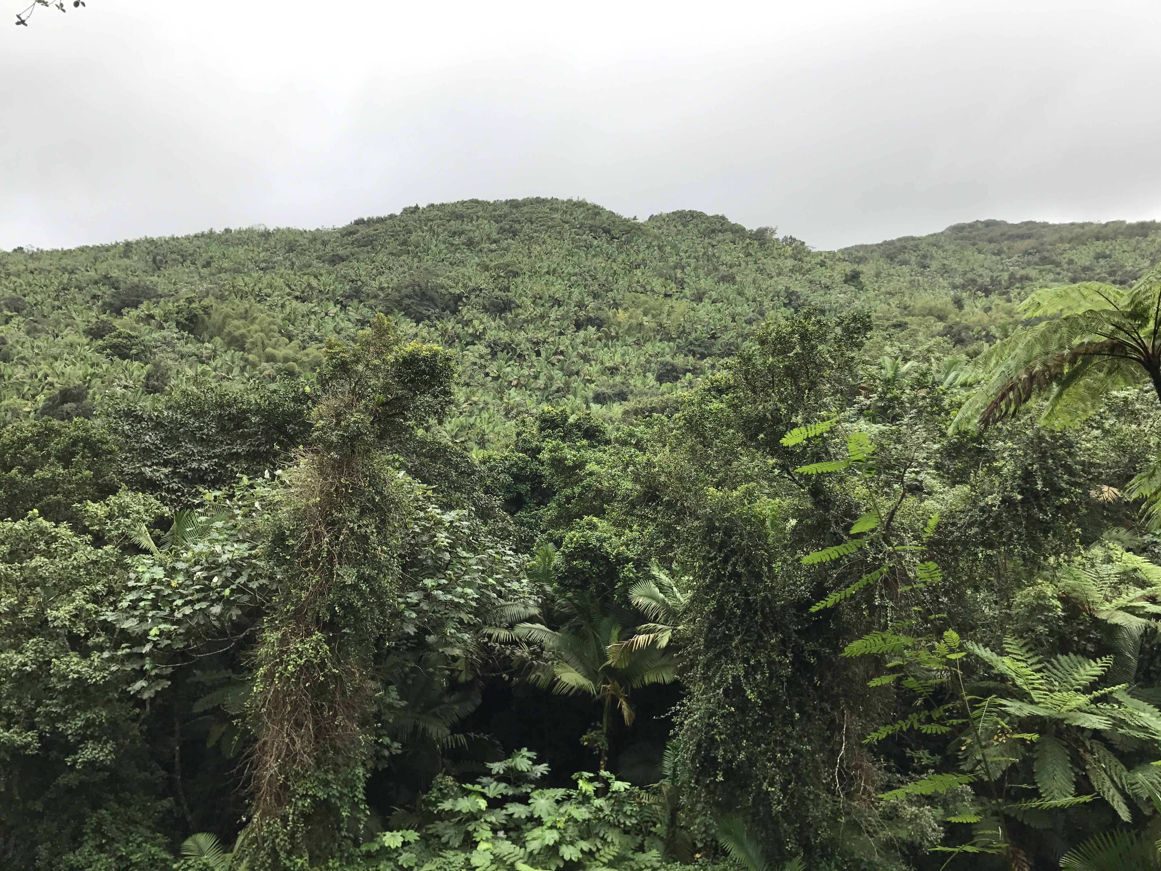 Picture was taken in the El Yunque Rain Forest in Puerto Rico